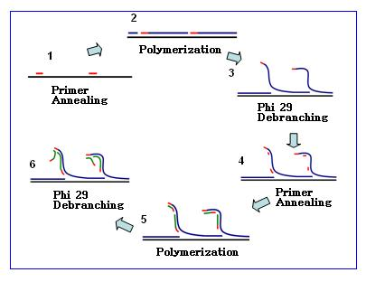 Multiple Displacement Amplification